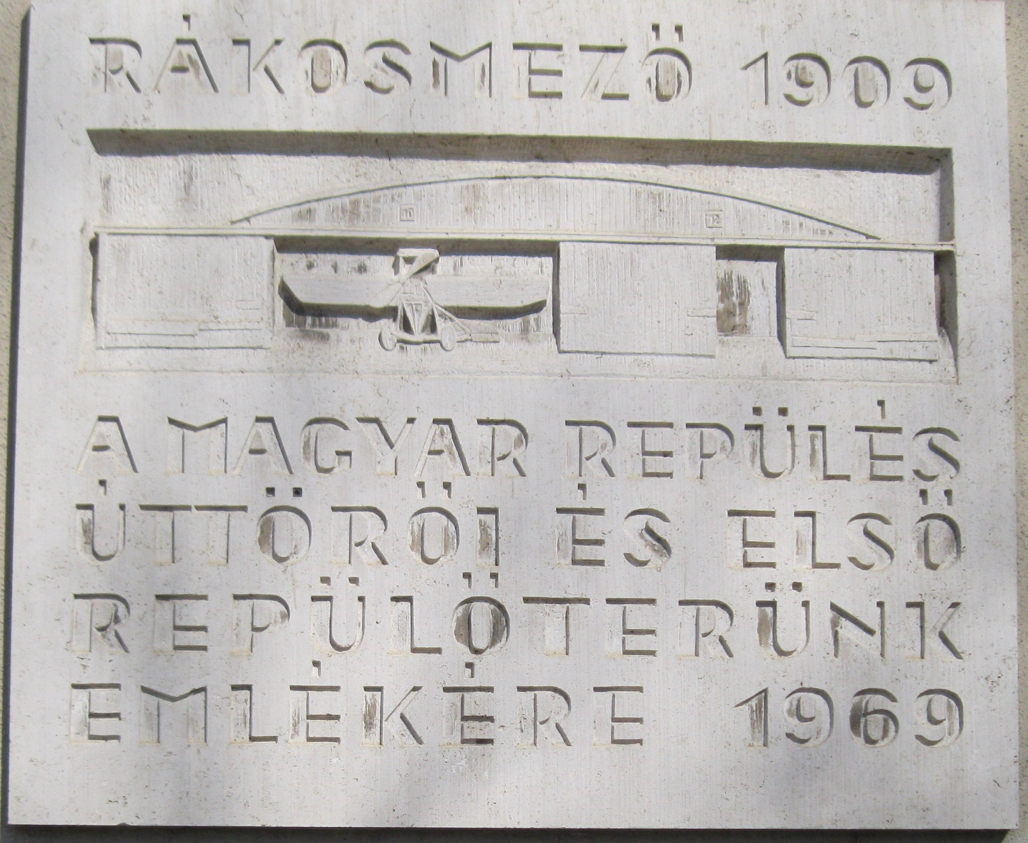 Commemorative plaque for the first Hungarian airport, Budapest District XIV, City Park, Transport Museum of Budapest